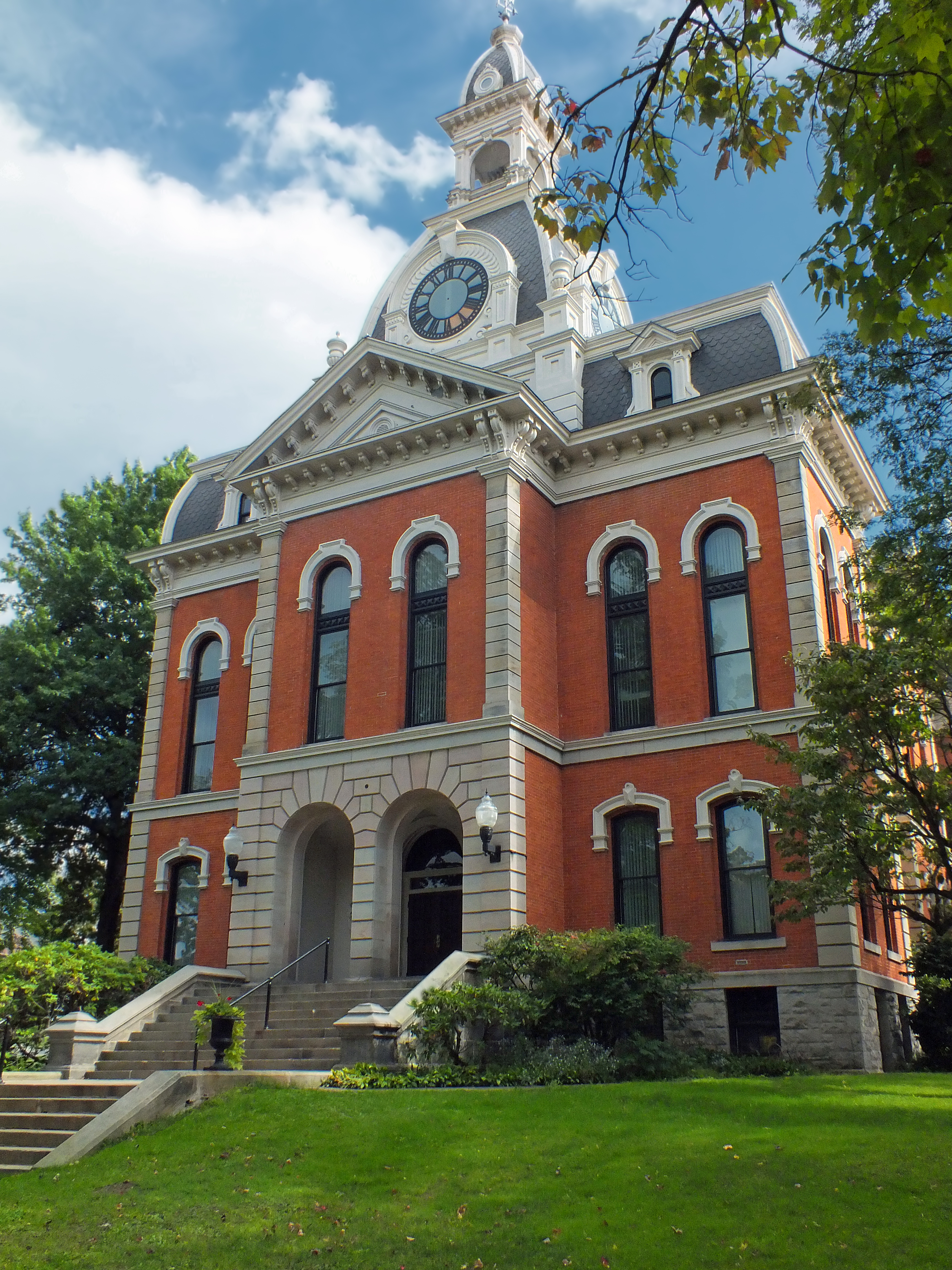 Within the borough of Ridgway.